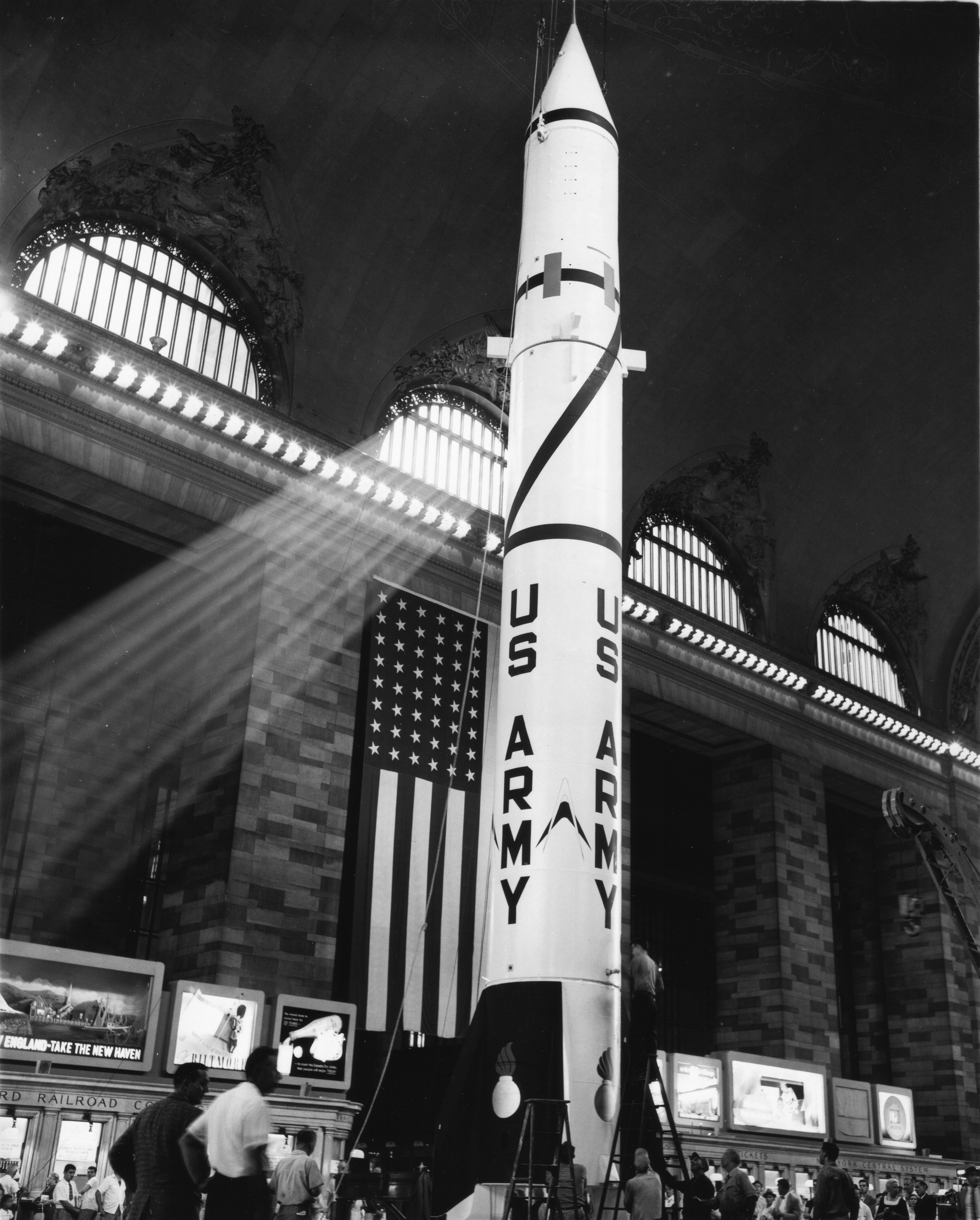 Redstone Missle on display in Grand Central Station July 7 1957